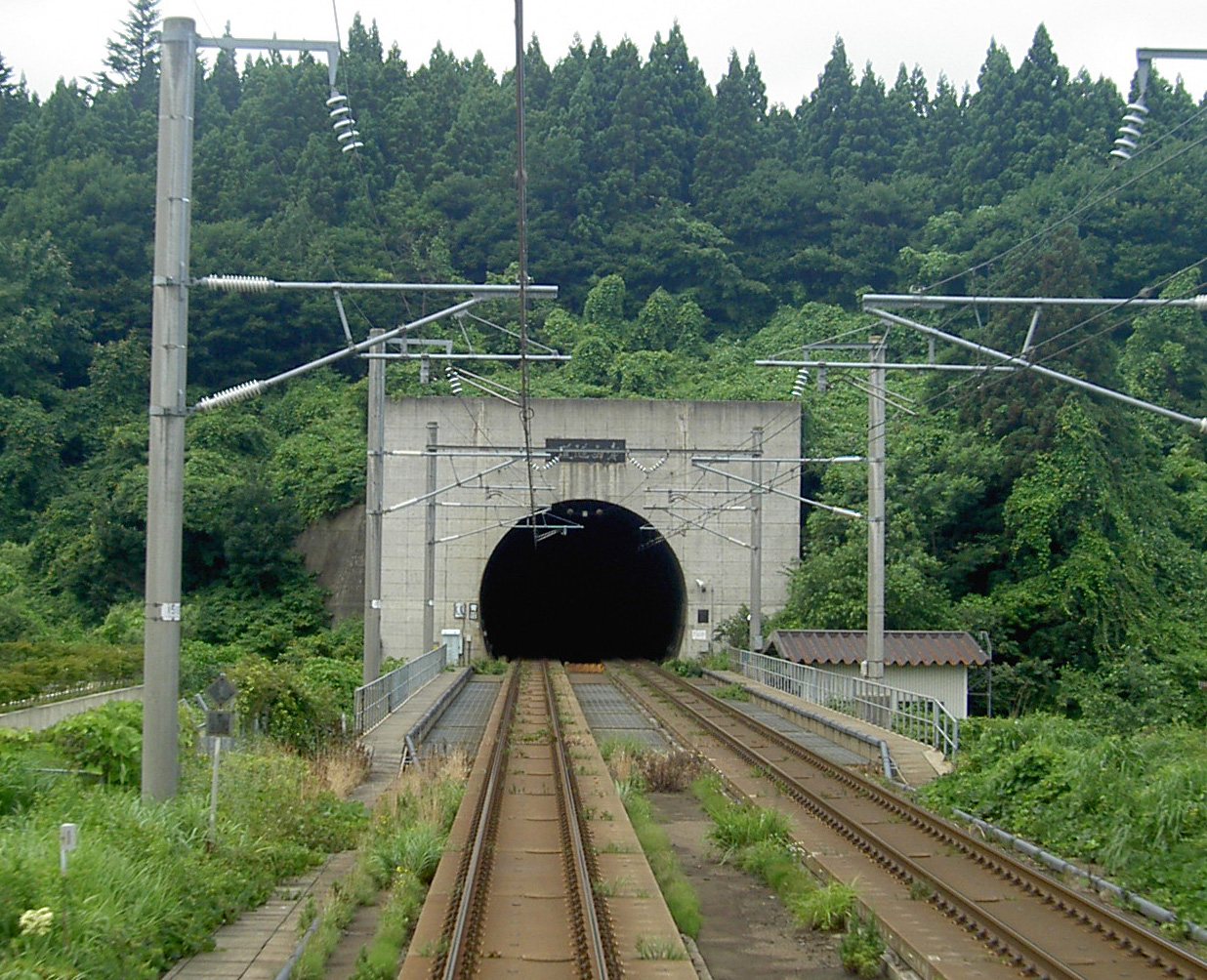 Seikan Tunnel entrance (Honshu side)